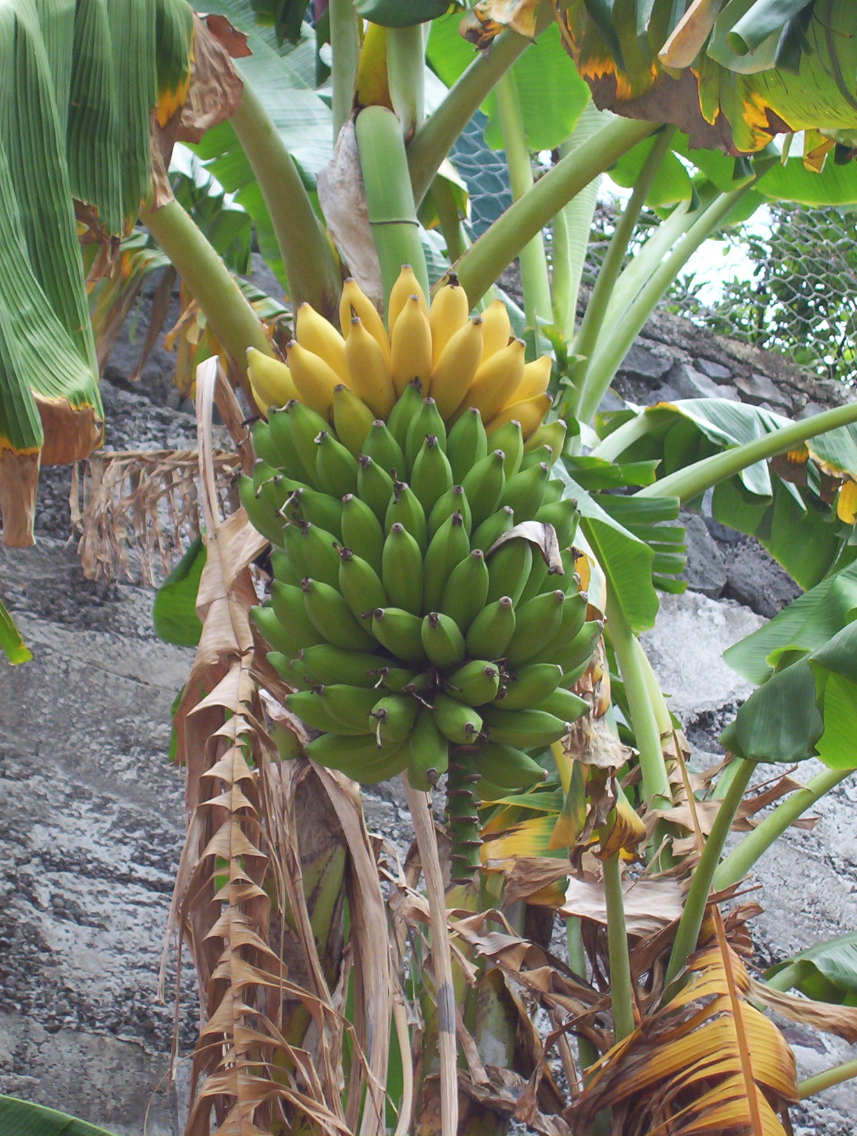 Bananas on a banana tree. Personnal photo, free licence (see below).